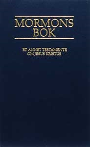 The cover of a copy of the Book of Mormon translated into the Norwegian language by The Church of Jesus Christ of Latter-day Saints.